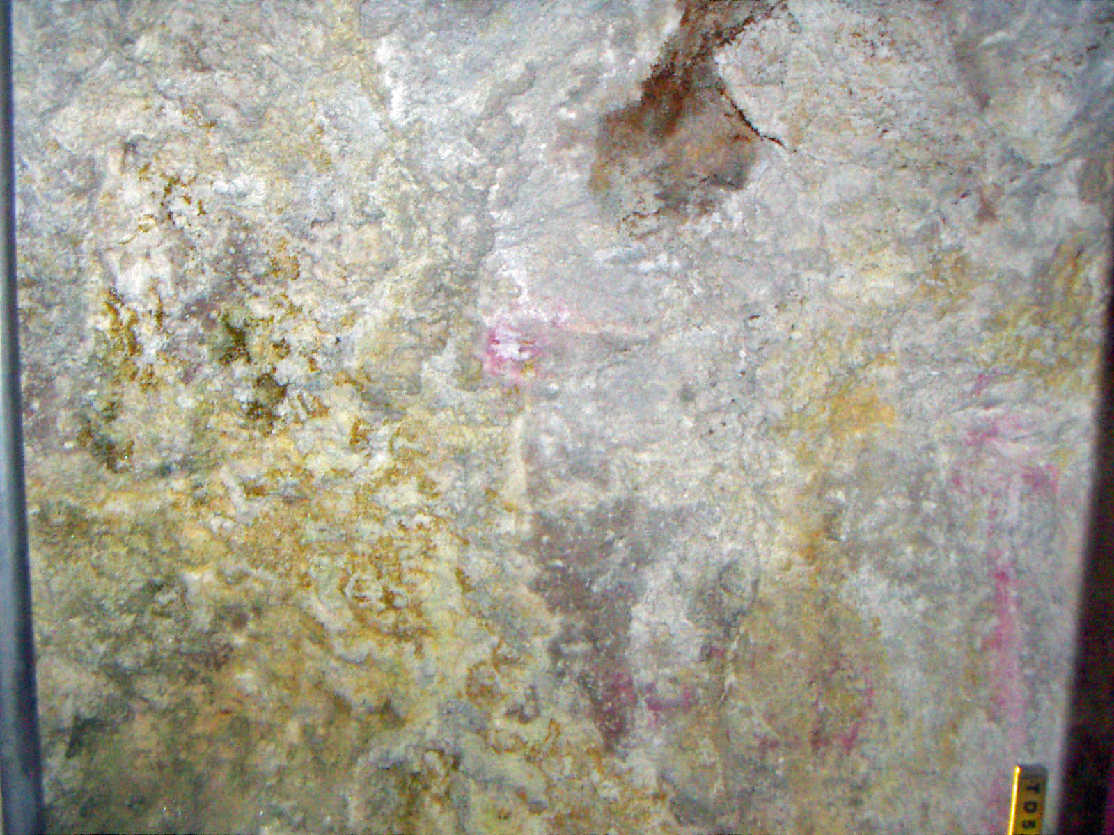 Kounetu Zuido is high temperature tunnel.